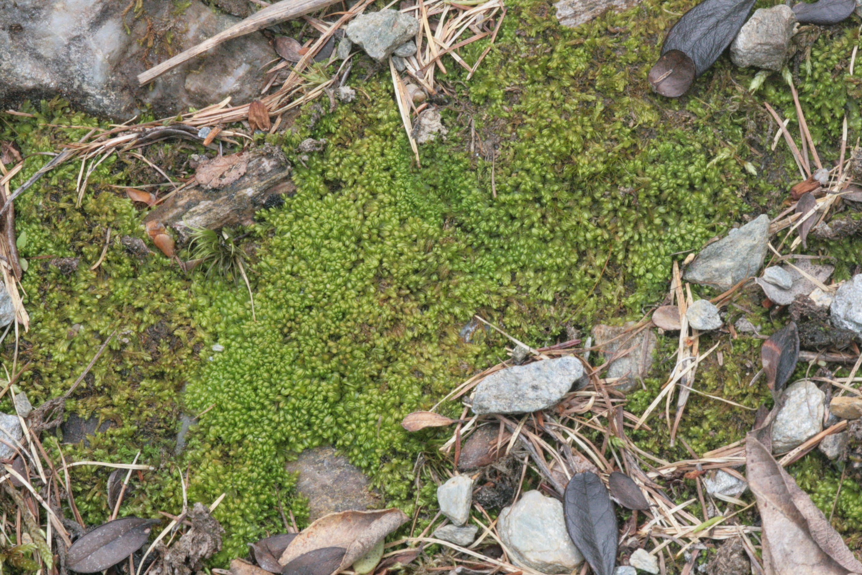 Nardia scalaris